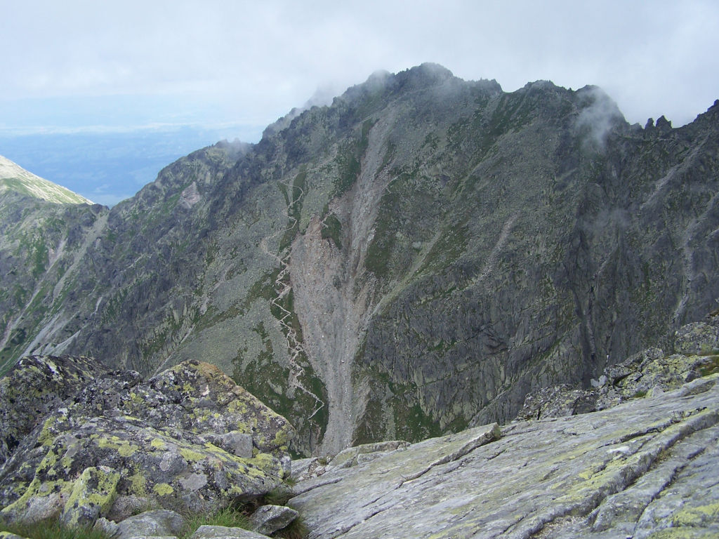 Granaty (High Tatra Mountains)